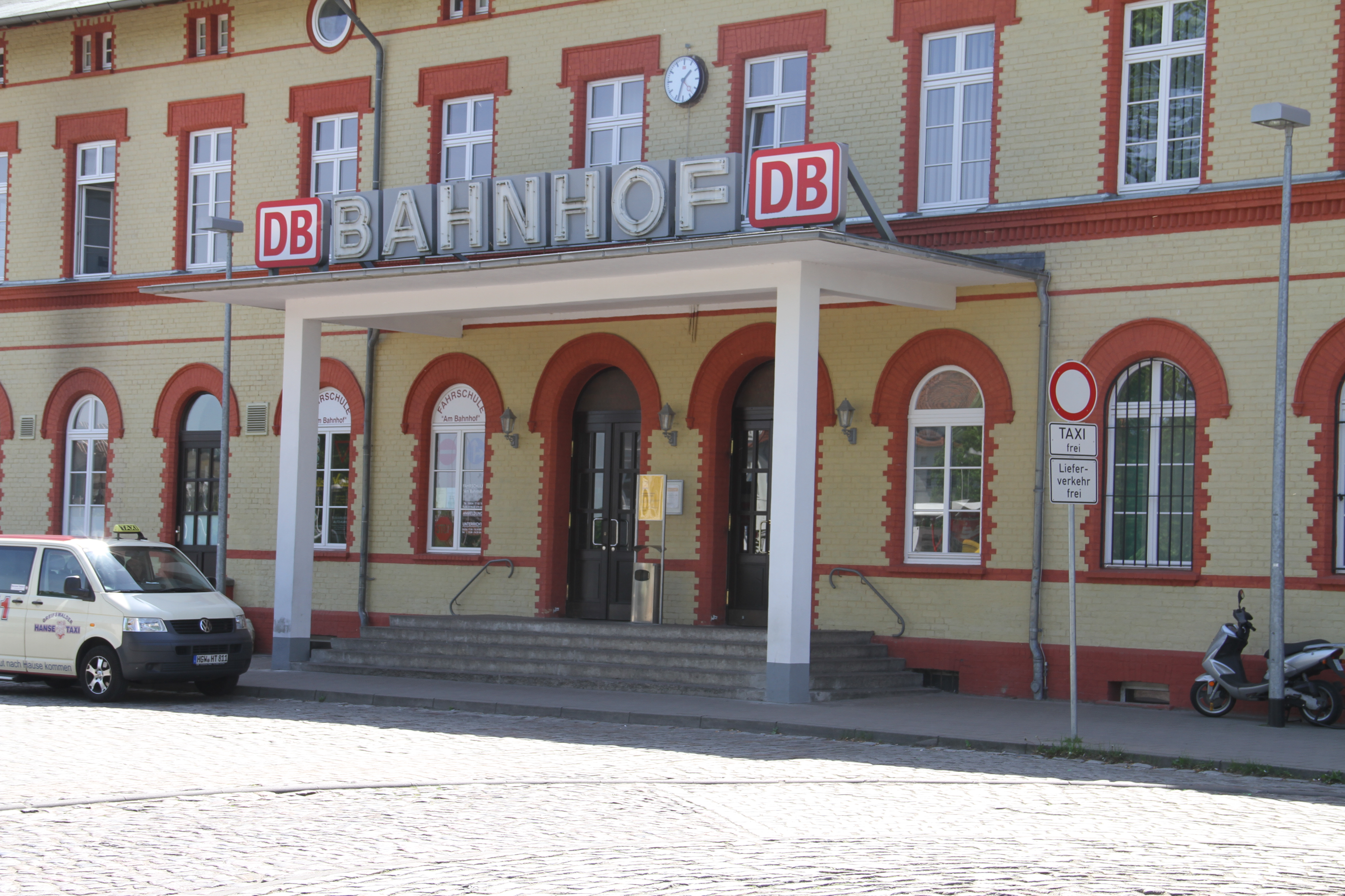 Bahnhof Greifswald (Greifswald main station) in May 2012.